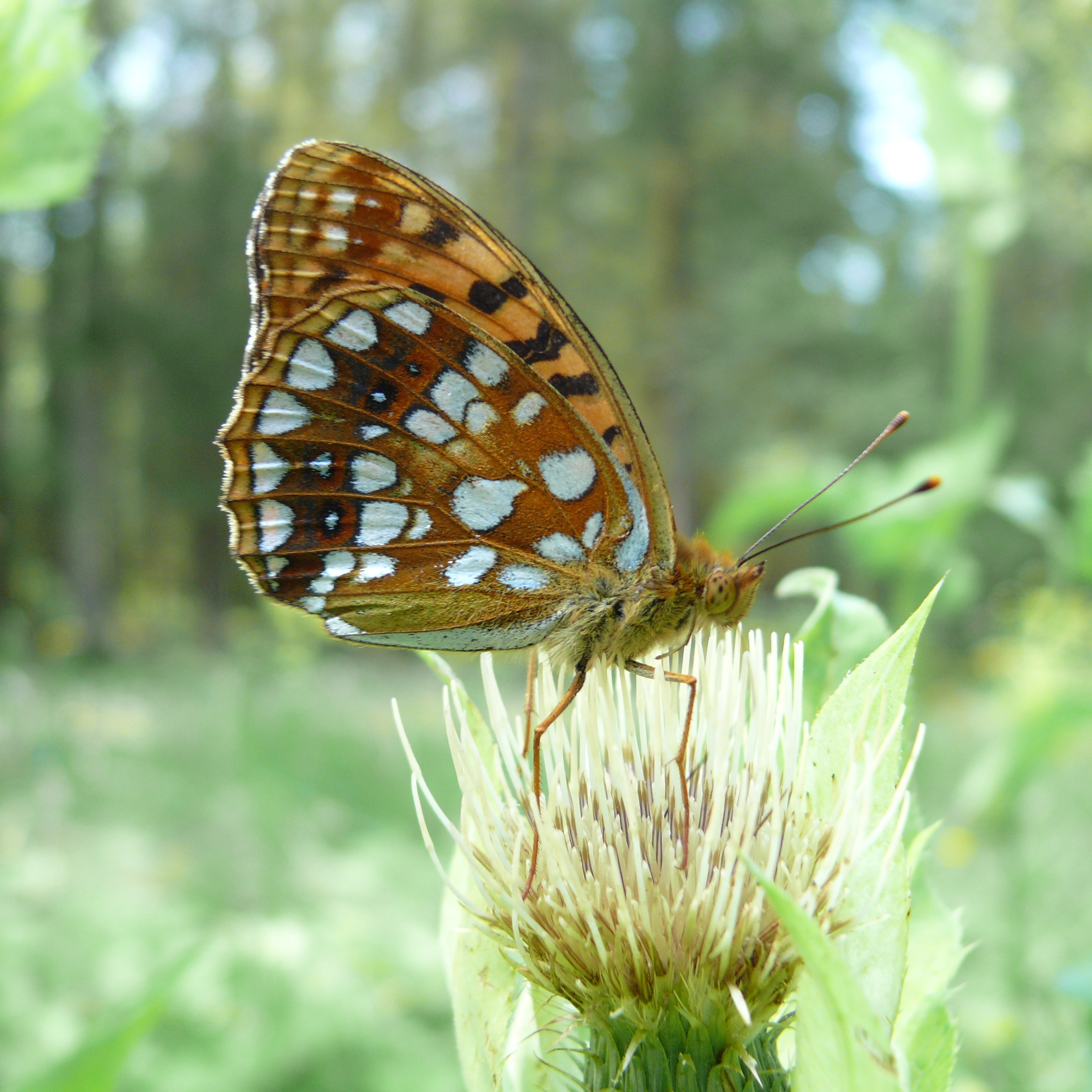 High Brown Fritillary butterfly, photographed in Oberstdorf, Bavaria, Germany